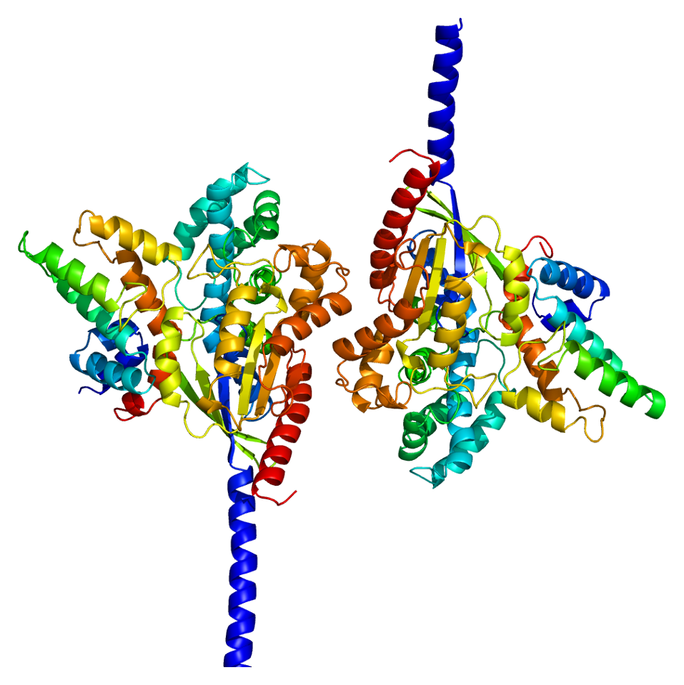 Structure of the GNAI3 protein. Based on PyMOL rendering of PDB 1agr.